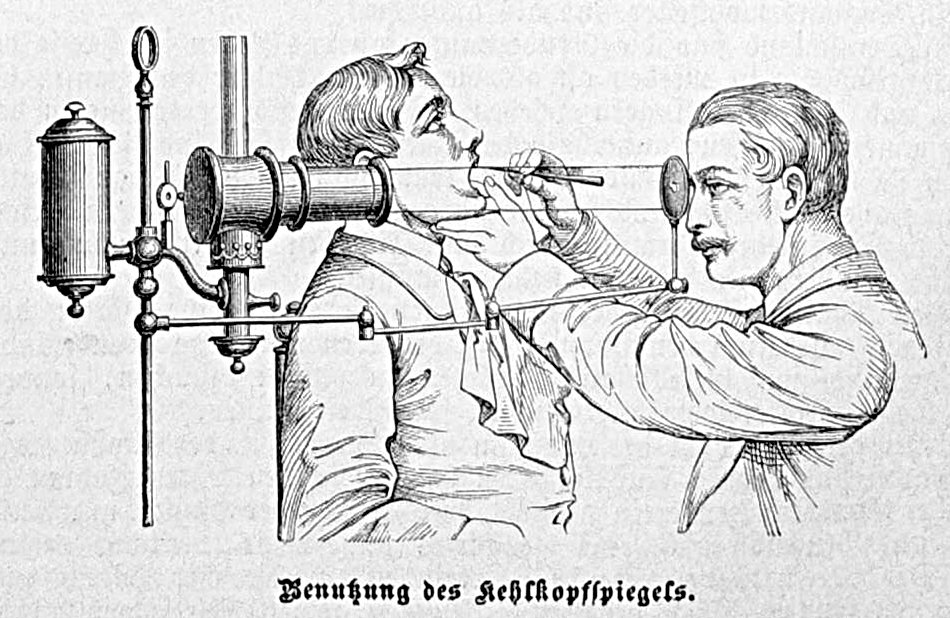 caption: "Benutzung des Kehlkopfspiegels."